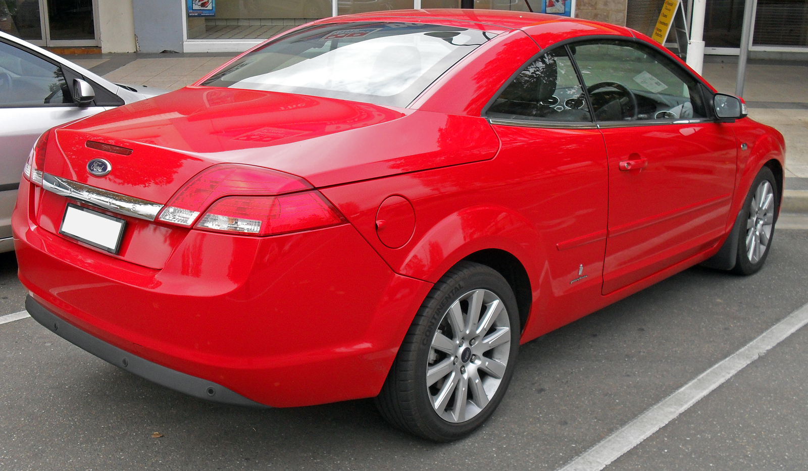 2007–2008 Ford Focus (LT) Coupe Cabriolet, photographed in New south Wales, Australia.